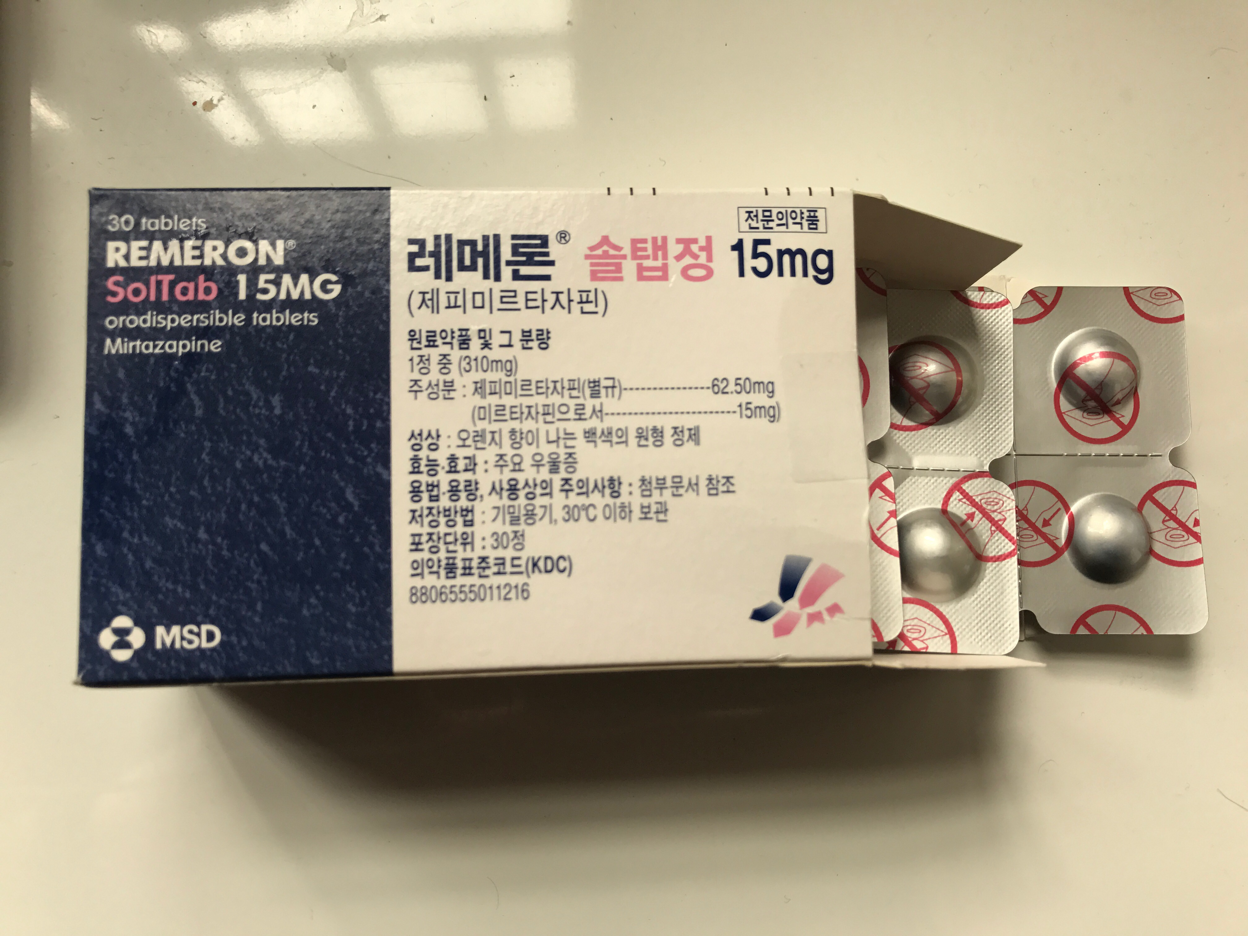 Remeron Soltab 15mg tables package